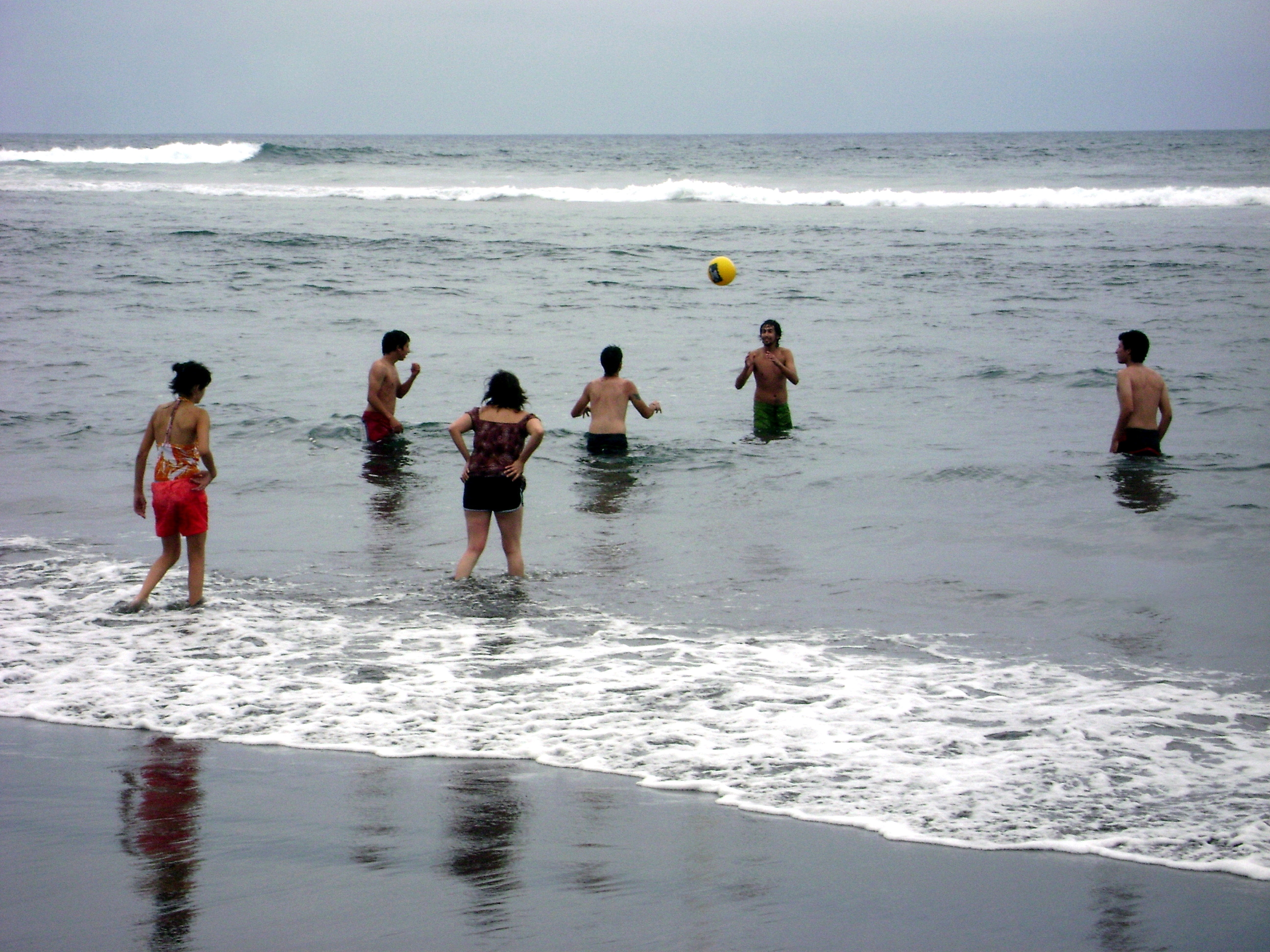 A photo I've taken from Pichilemu's beach.